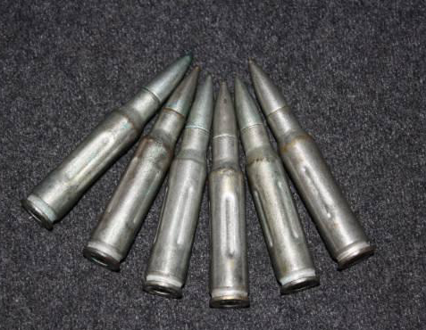 Rifle dummy cartridges